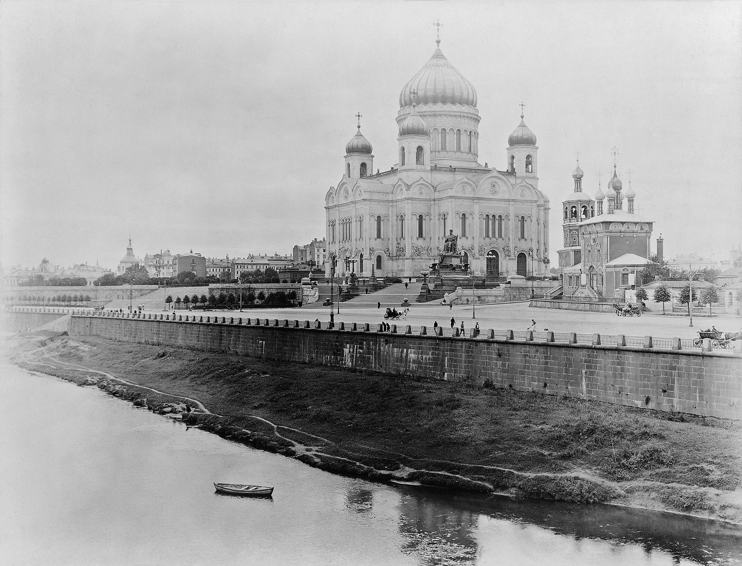 Cathedral of Christ the Saviour in Moscow.